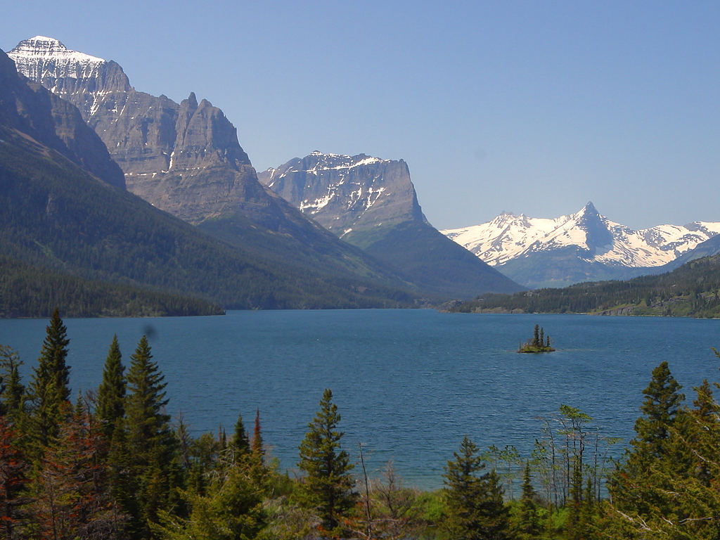 Wild Goose Island on St Mary Lake in glacier national park.